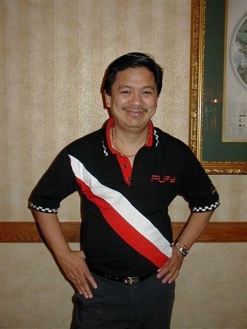 This is my personal picture and may be released to the public domain